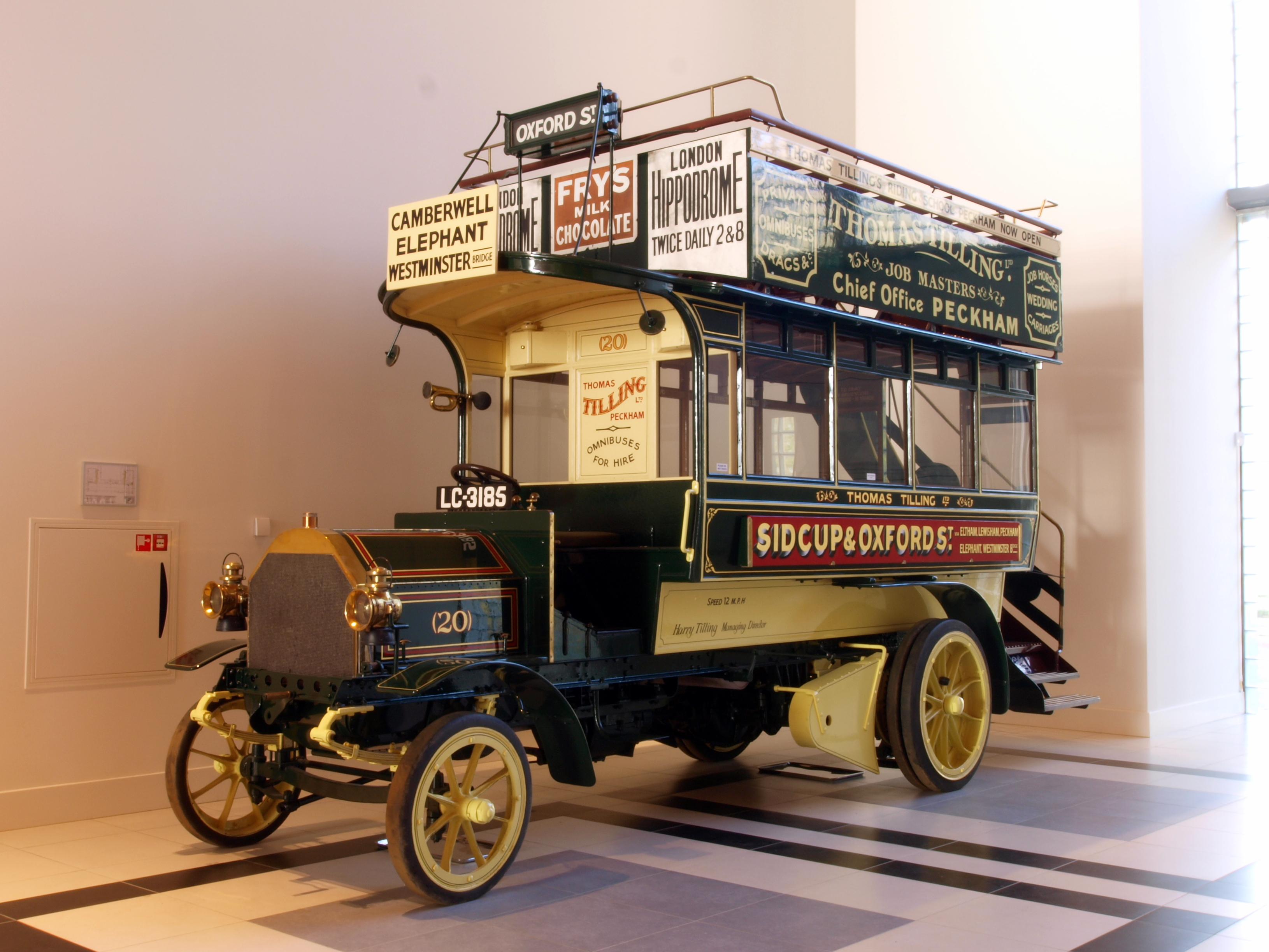 Photographed at the Louwman museum, The Netherlands.